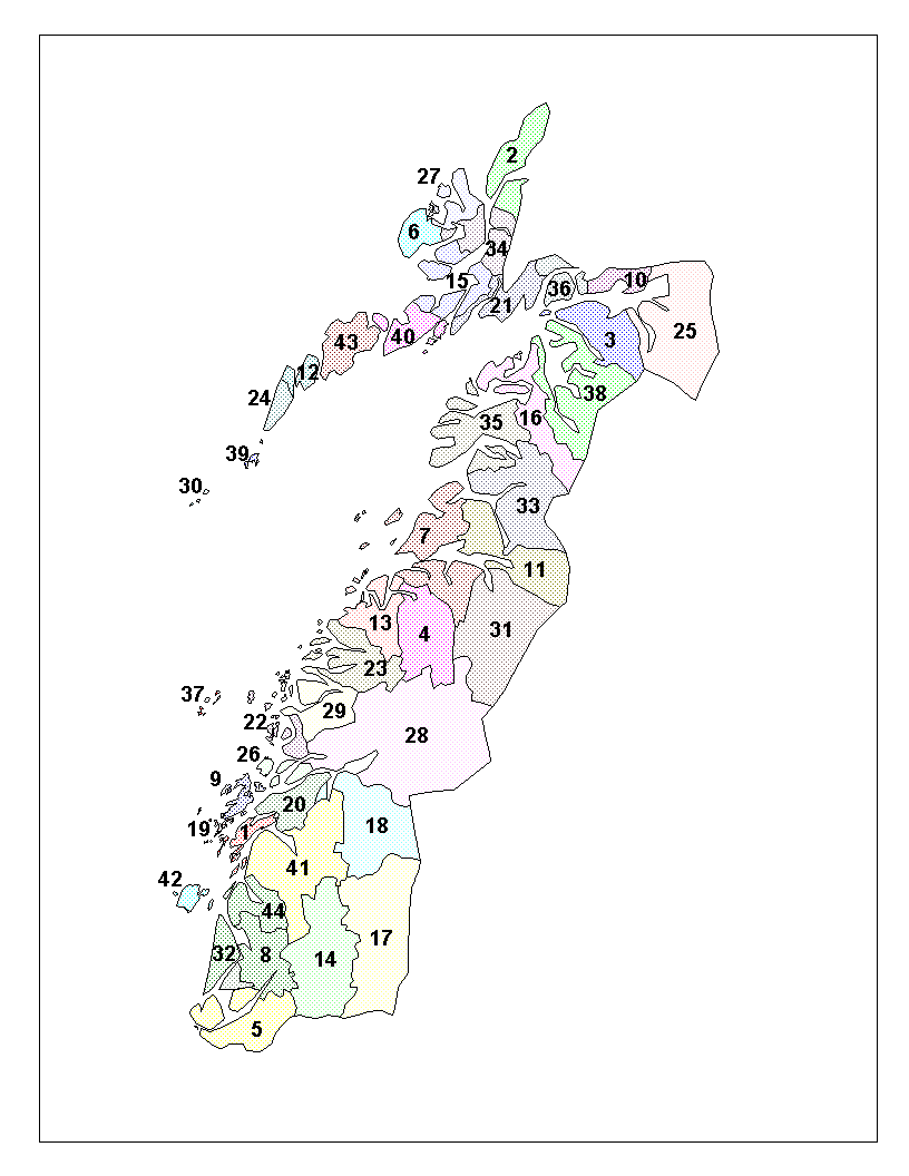 Map of the municipalities of Nordland County for Norway.